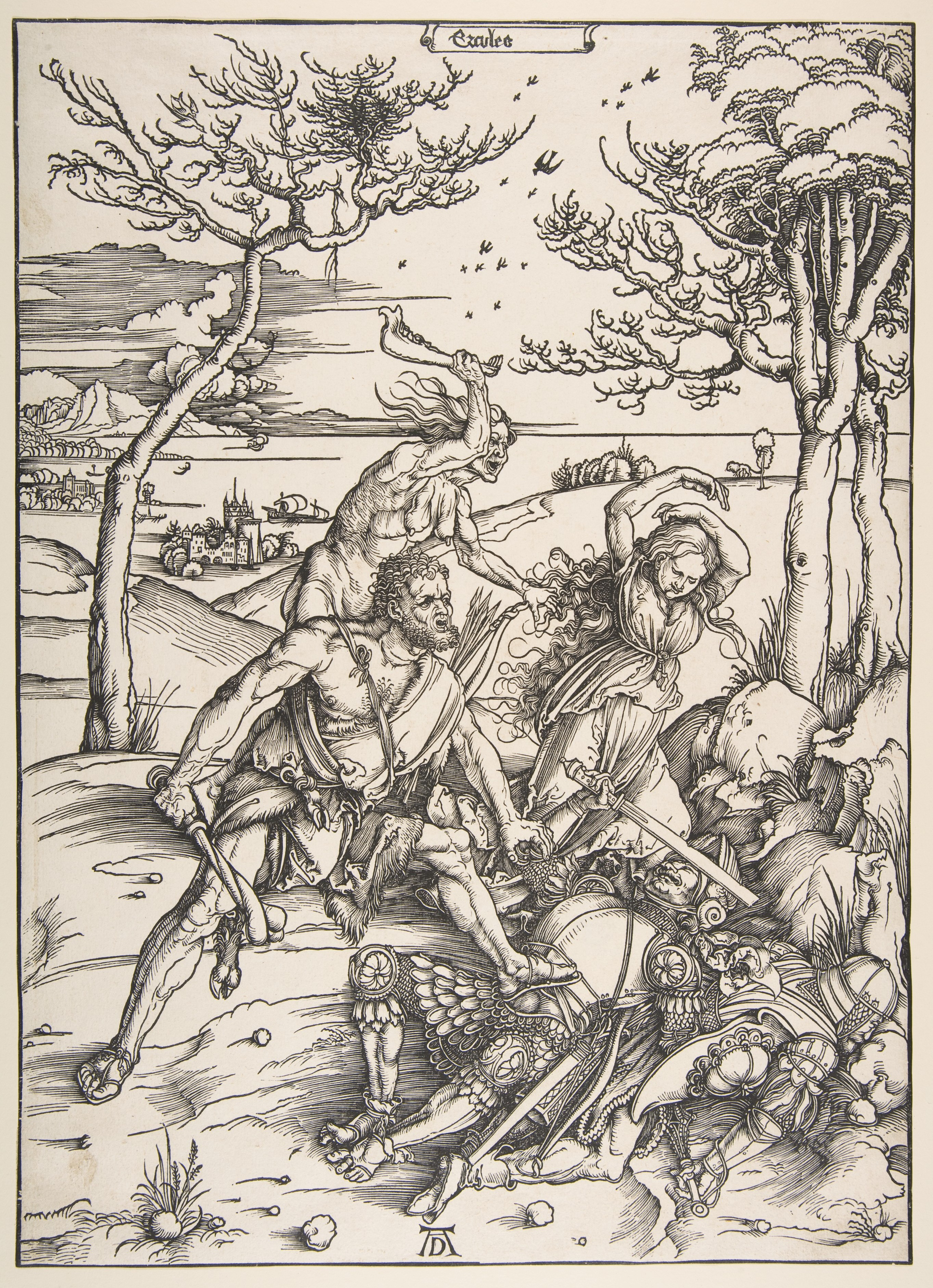 Print; Prints